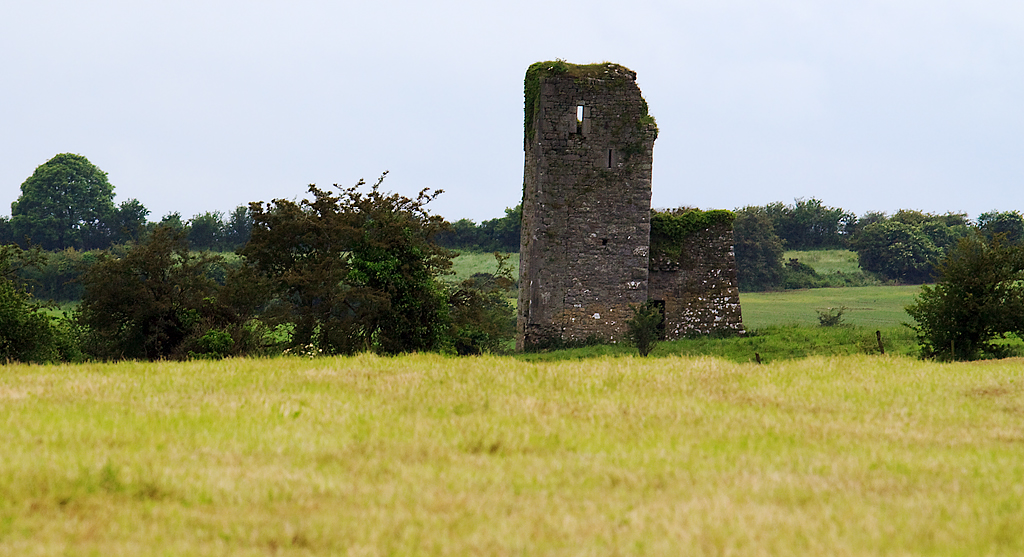 Castles of Munster: Kilcolman, Cork